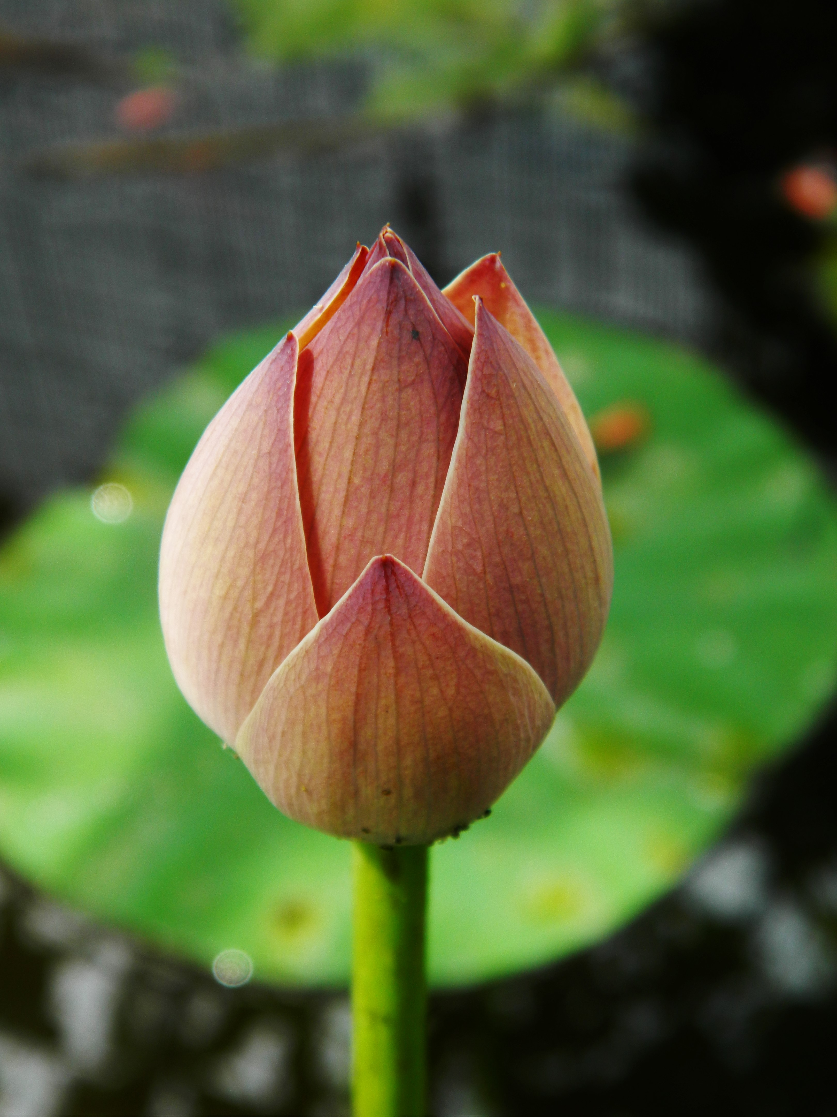 Initial stage of the lotus flower, an aquatic plant widely found in India.